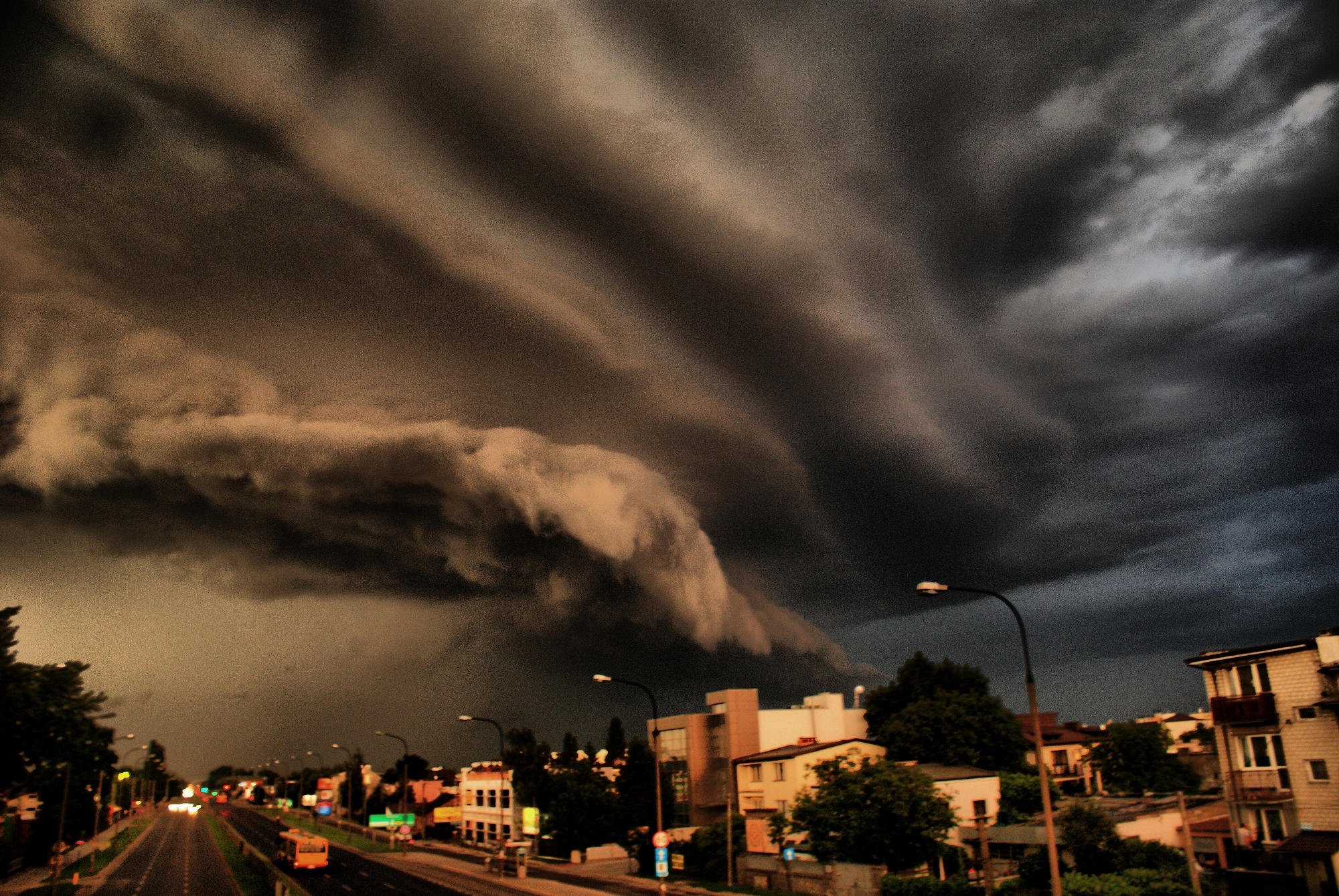 Shelf cloud in Warsaw